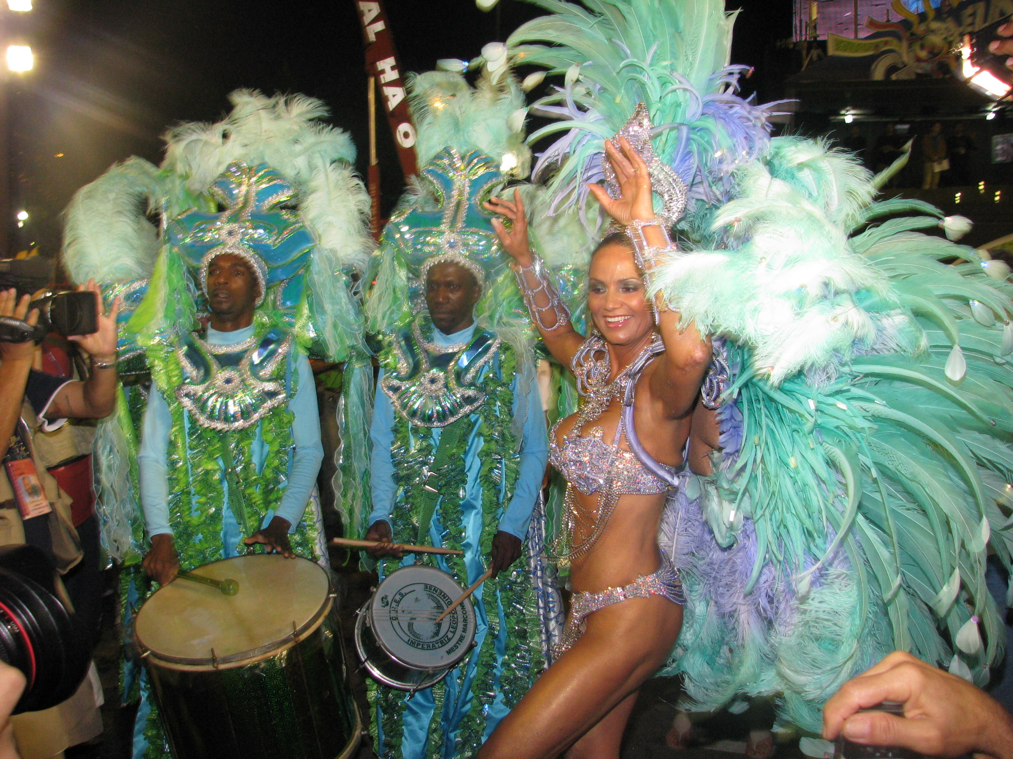 Luíza Brunet was the Queen of the drums for Imperatriz Leopoldinense in the carnival of 2008.